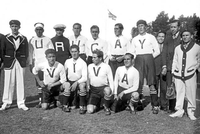 Bolivia national football team line-up on July 17, 1930, right before the match against Yugoslavia. Back row, l-r: Juan Jorge Argote, Jesús Bermúdez, Mario Alborta, José Bustamante, René Fernández, Casiano José Chavarría; Front row, l-r: Diógenes Lara, Jorge Luis Valderrama, Segundo Durandal, Gumercindo Gómez.